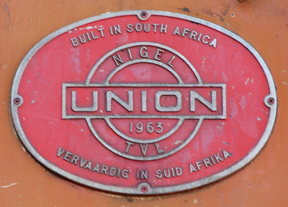 SAR Class 5E1 Series 2 builder's plate (Locomotive number range E591 to E720, but found on Class 6E1 no. E1411, built in 1973)Location: Bloemfontein, Free State